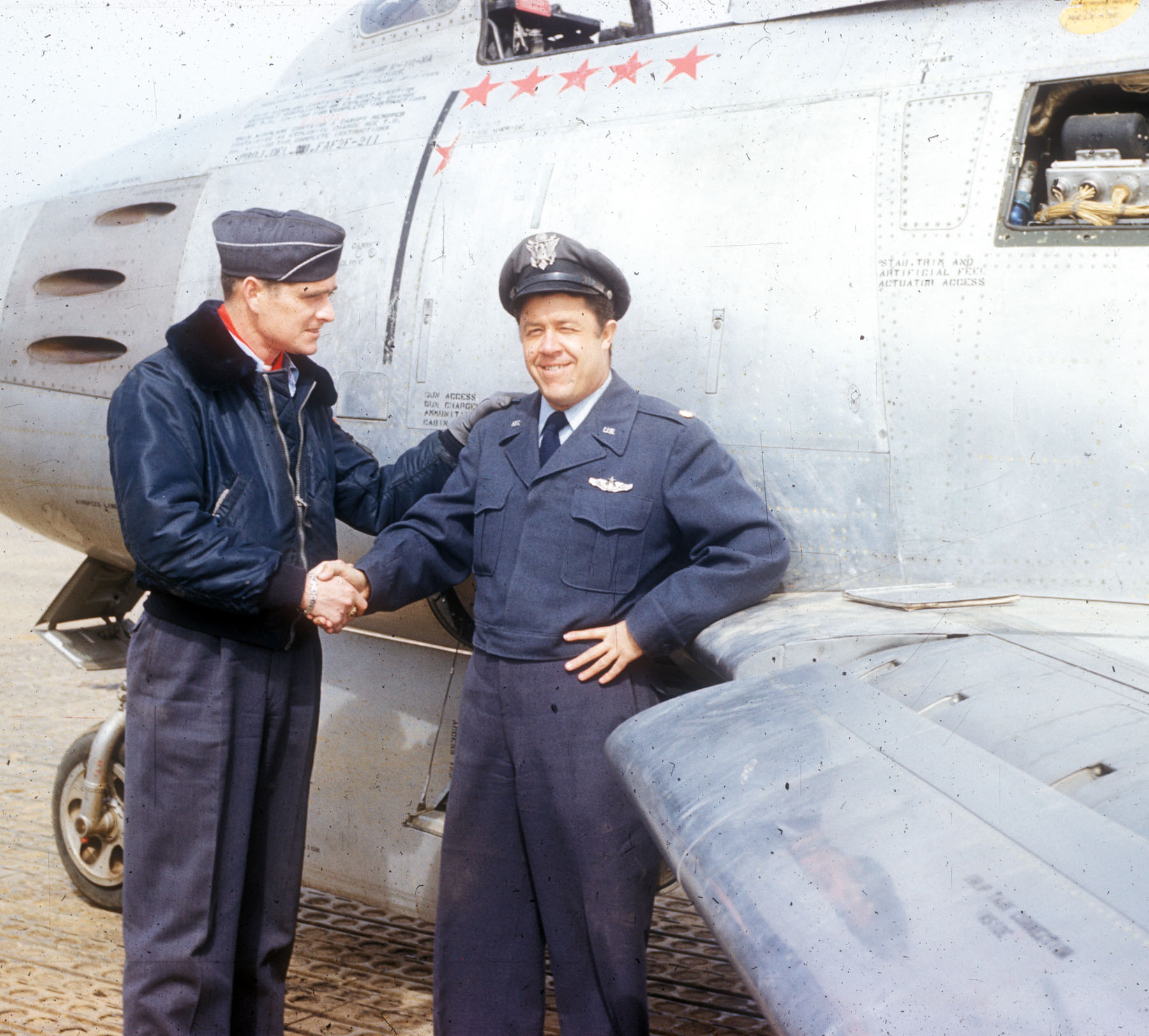 Maj. Van Chandler (right) shakes hands with Maj. William Whisner (left). In addition to his 15 1/2 kills during World War II, Whisner shot down 5 1/2 MiGs in Korea. (U.S. Air Force photo)